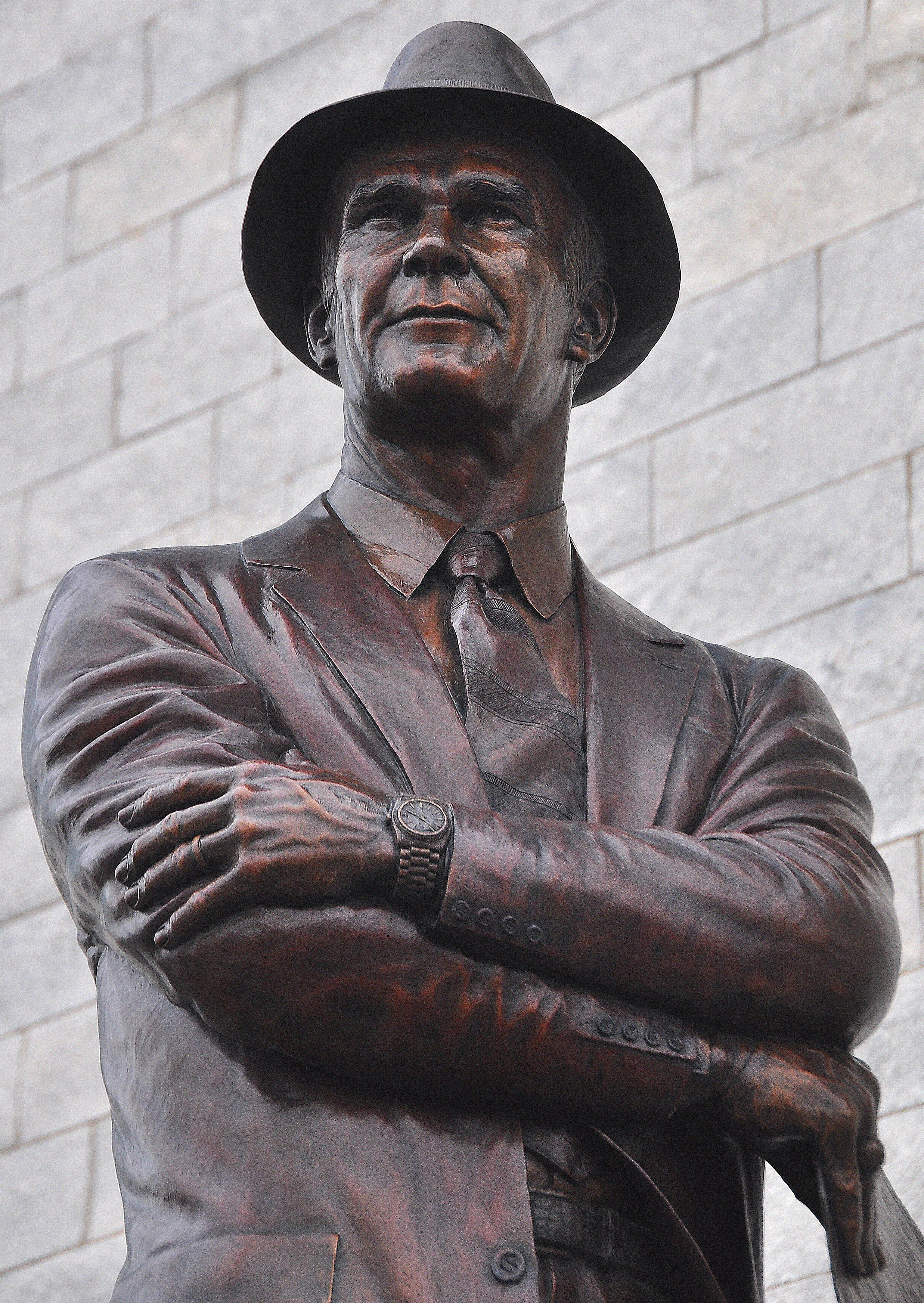 Tom Landry, former head coach of the Dallas Cowboys